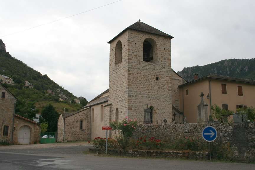 The church Saint-Sauveur in Le Rozier in the département Lozère in France was built in the 11th and 12th century.